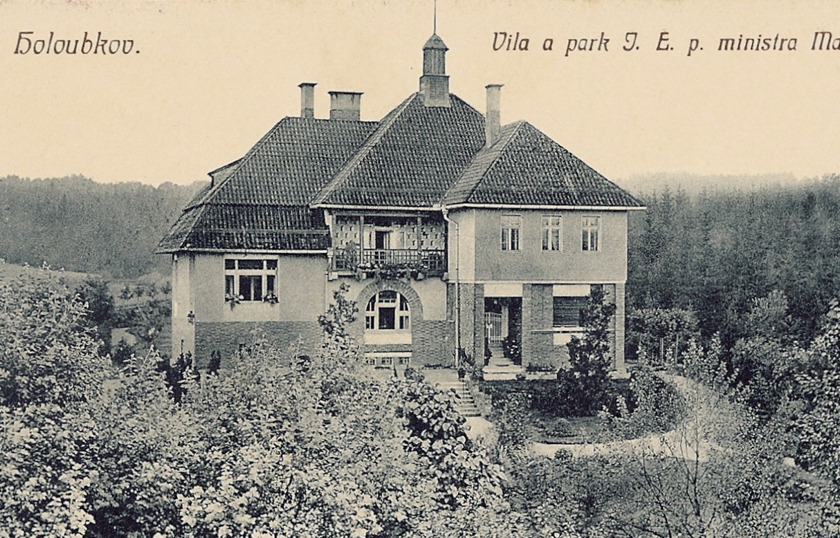 Brno